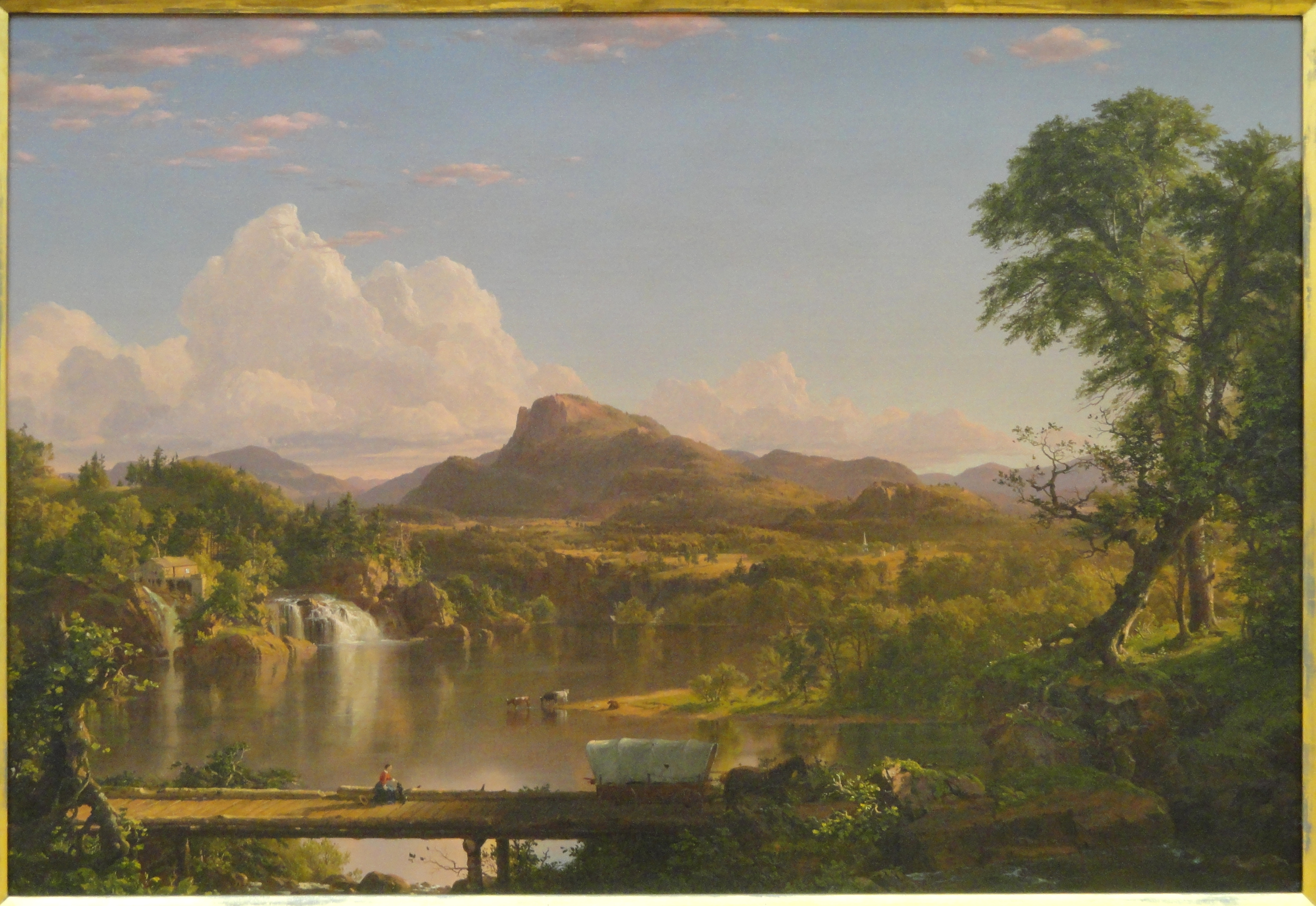 Exhibit in the Museum of Fine Arts, Springfield, Massachusetts, USA. This artwork is old enough so that it is in the public domain.